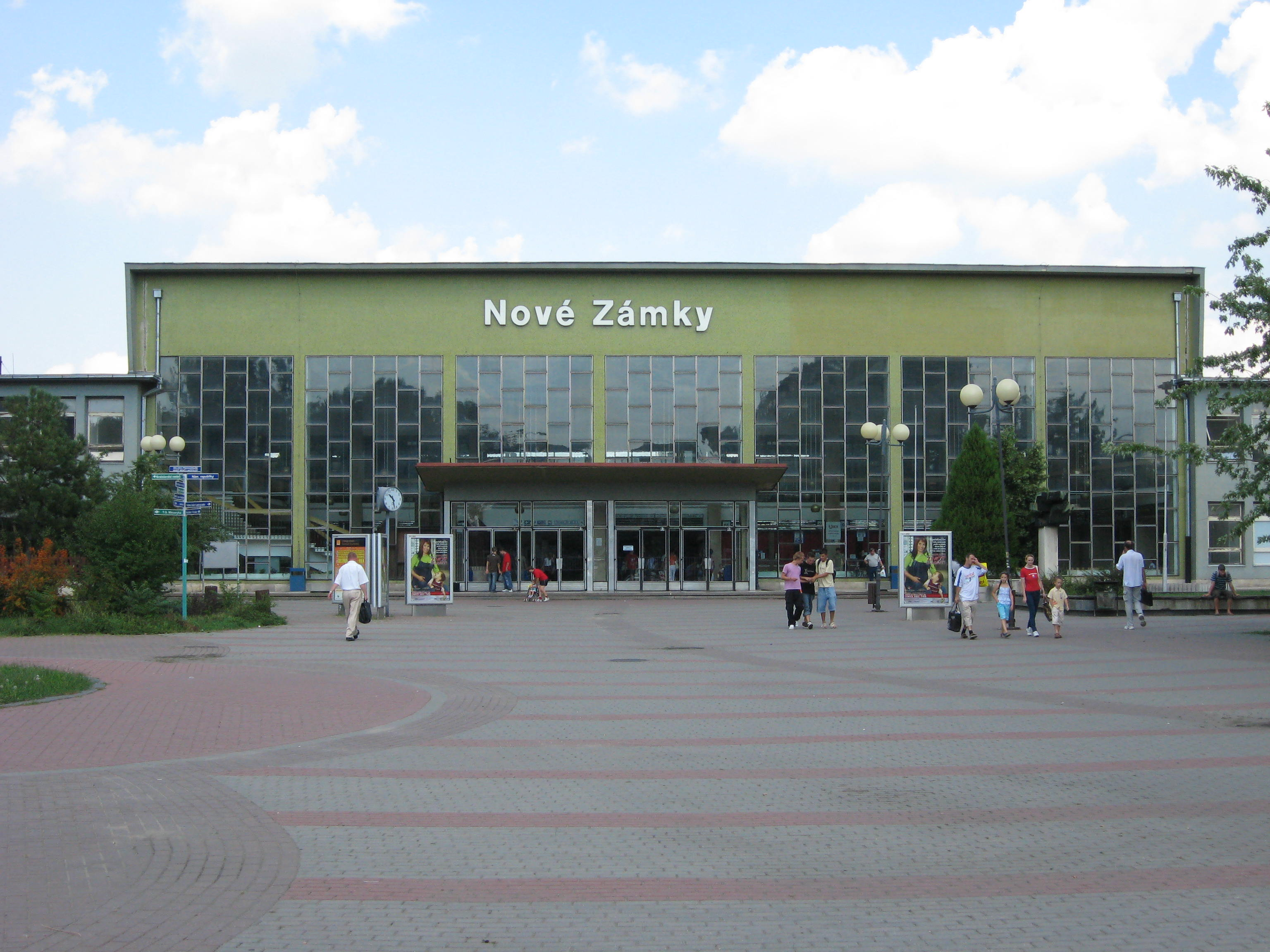 Railway station in Nové Zámky